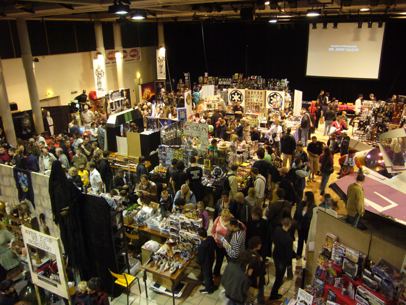 Pic taken during Générations Star Wars et Science Fiction 2010 convention at Cusset, France.